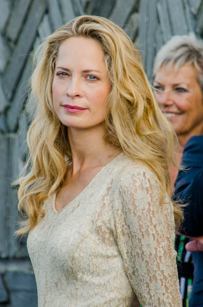 Maria Bonnevie at the San Sebastian Film Festival